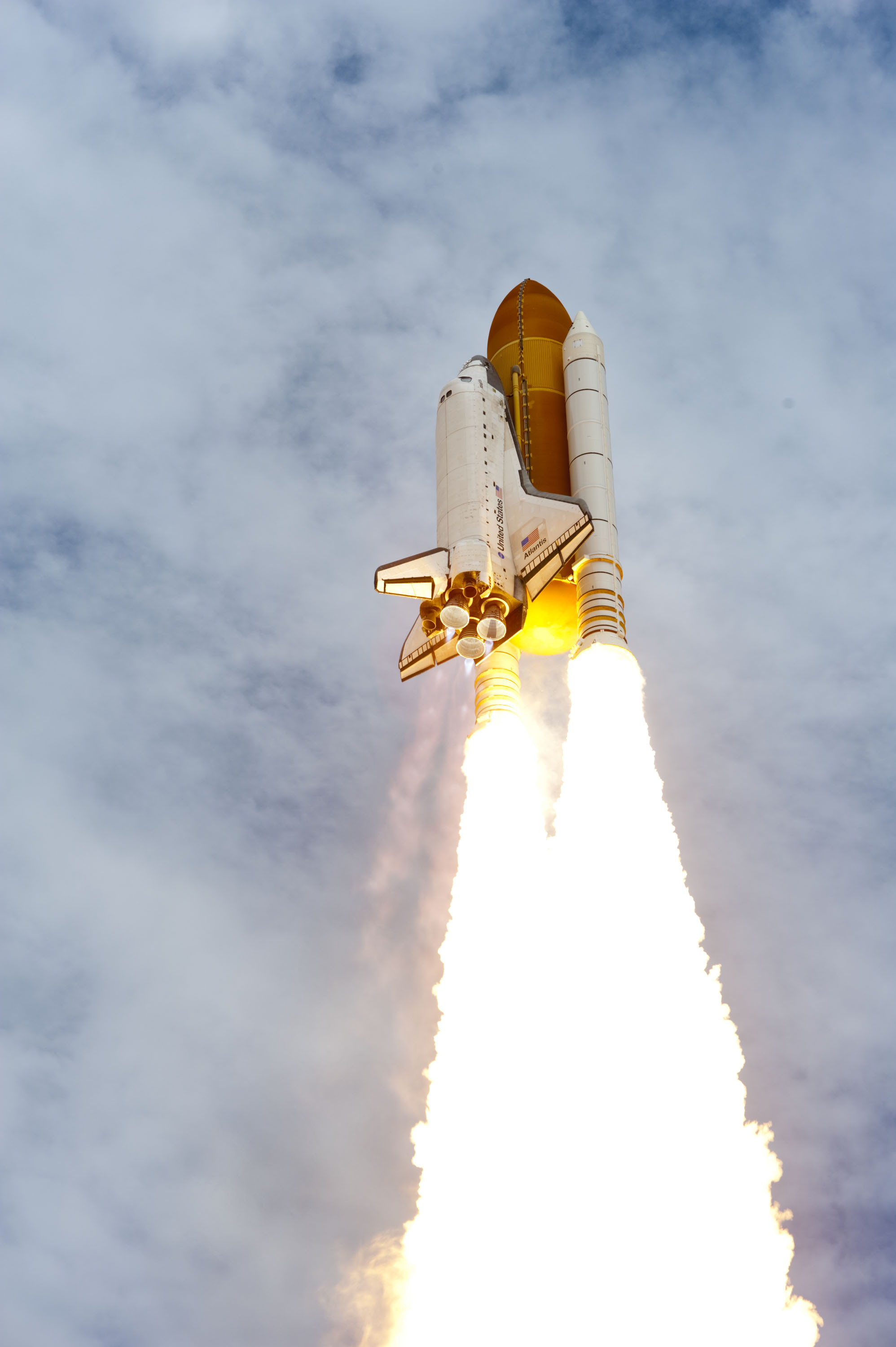 (July 8, 2011) Space Shuttle Atlantis' STS-135 mission launched from Launch Pad 39A at Kennedy Space Center on July 8, 2011. STS-135 was the last Space Shuttle mission. The crew of four delivered supplies to the ISS. Image # : KSC-2011-5396